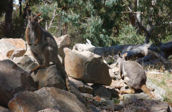 PARK IS LOCATED OUTSIDE OF ADELAIDE IN SOUTH AUSTRALIA; PICTURED HERE ARE YELLOW-FOOTED ROCK WALLABIES